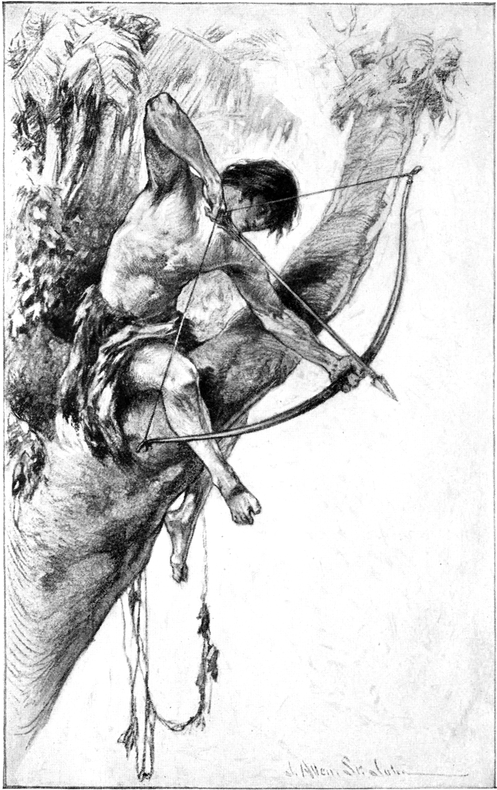 Frontispiece from 1918 edition of Tarzan and the Jewels of Opar